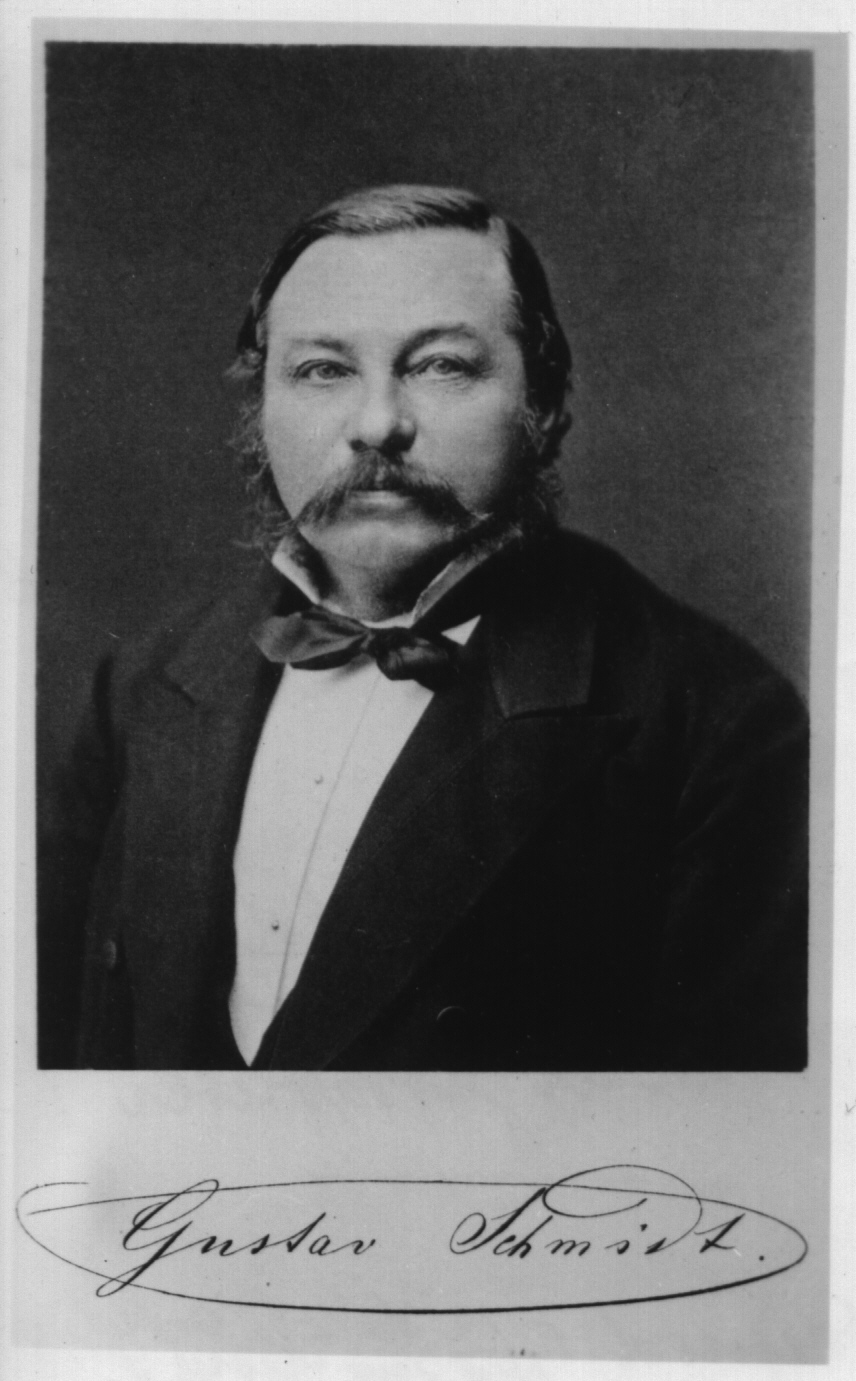 Gustav Schmidt ( 16.9.1826 - 27.1.1883 )